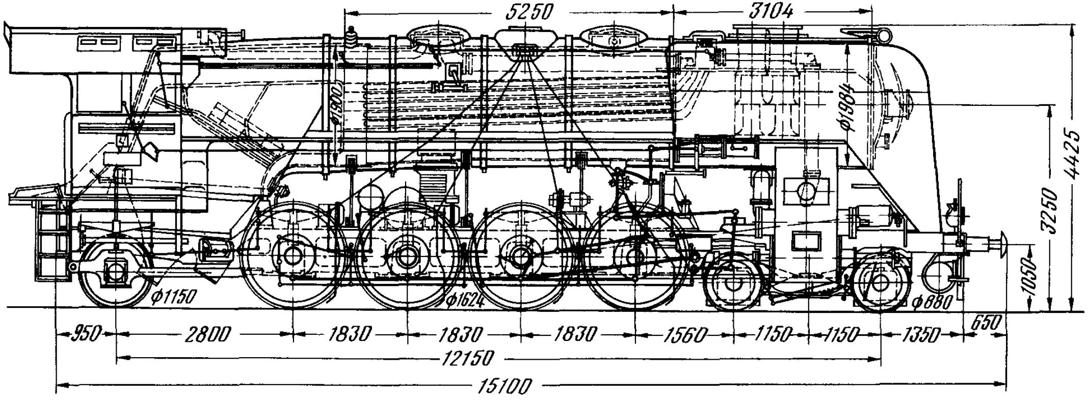 Drawing of the locomotive Drug (Friend), ČSD Class 476.0, SŽD 18-01